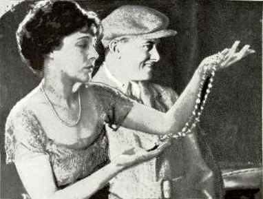 Still from the American film The Black Bag (1922) with Virginia Valli and Herbert Rawlinson, on page 30 of the June 10, 1922 Universal Weekly.